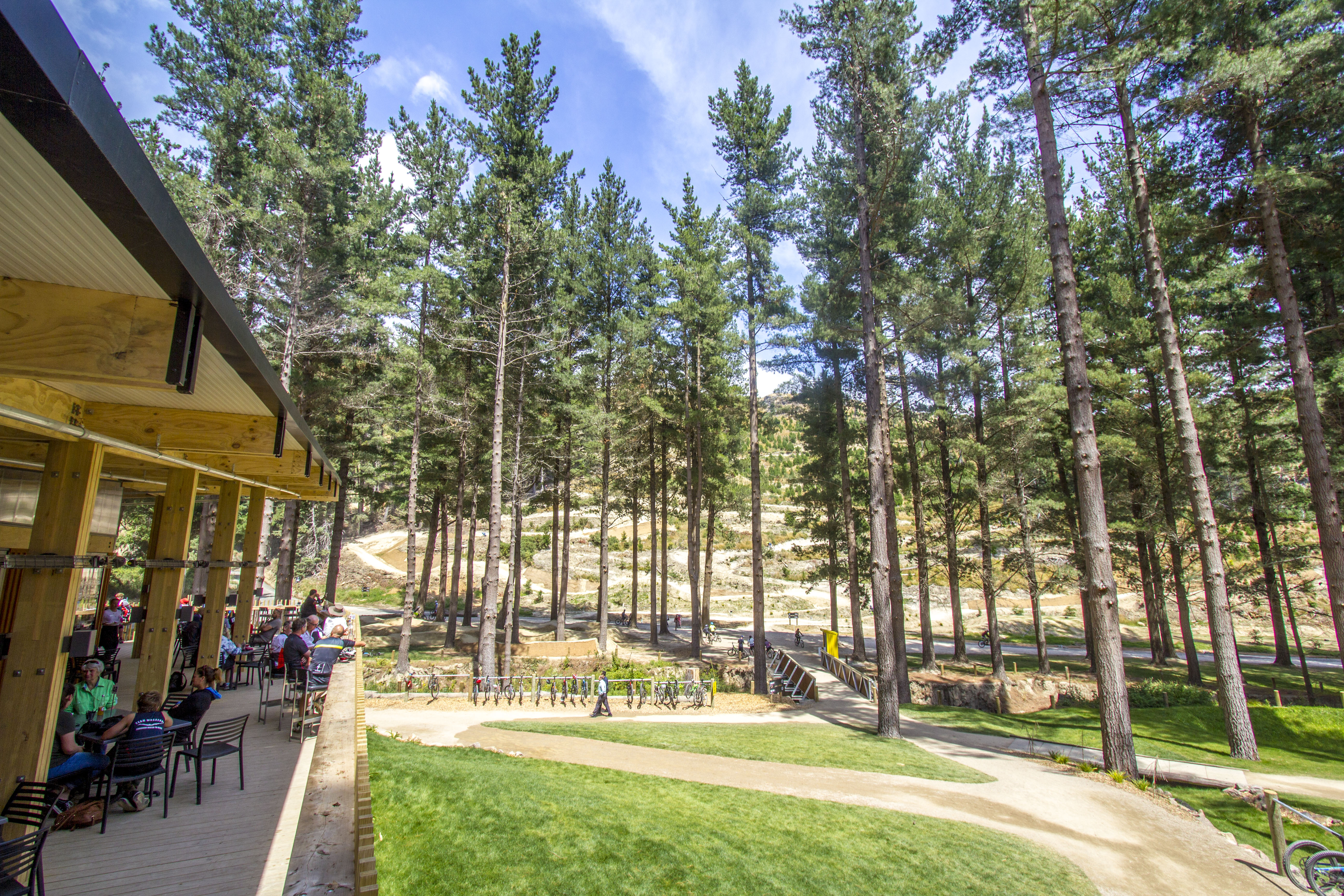 The view from the Handlebar Bar & Cafe in the village looking towards the pump track and final few turns of the bike trail network.